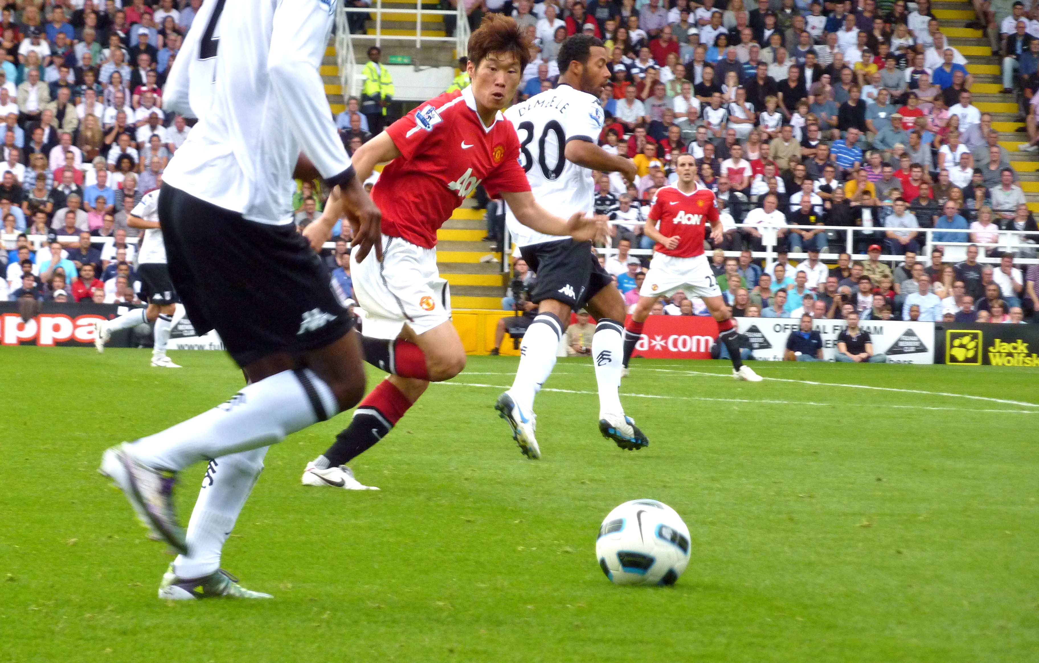 Park Ji-Sung of Manchester United against Fulham.